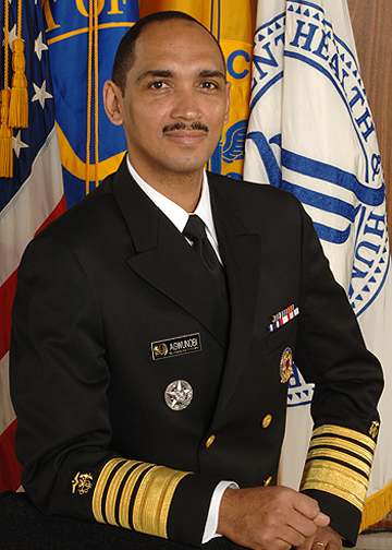 John O. Agwunobi from [1]